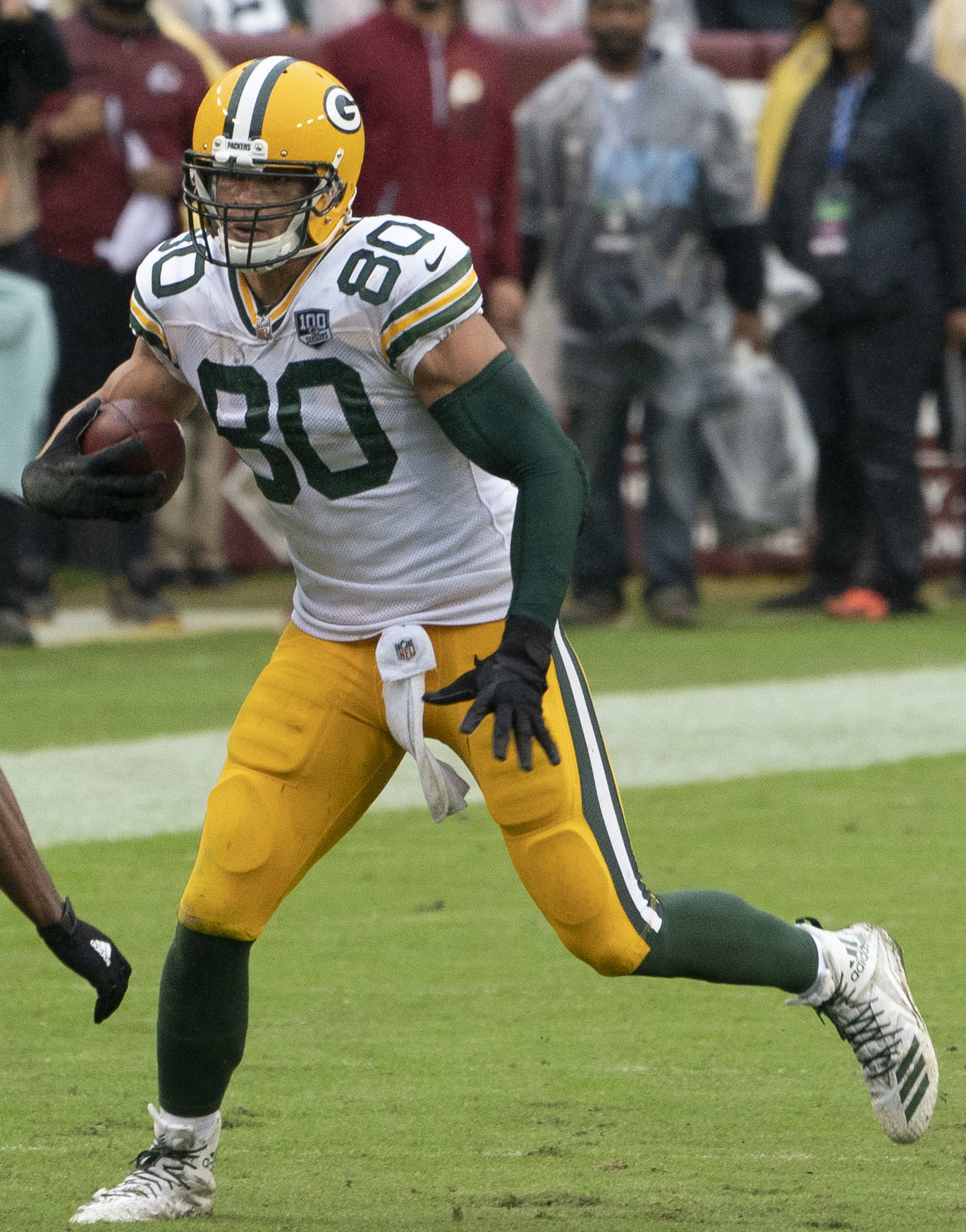 Packers at Redskins 09/23/18